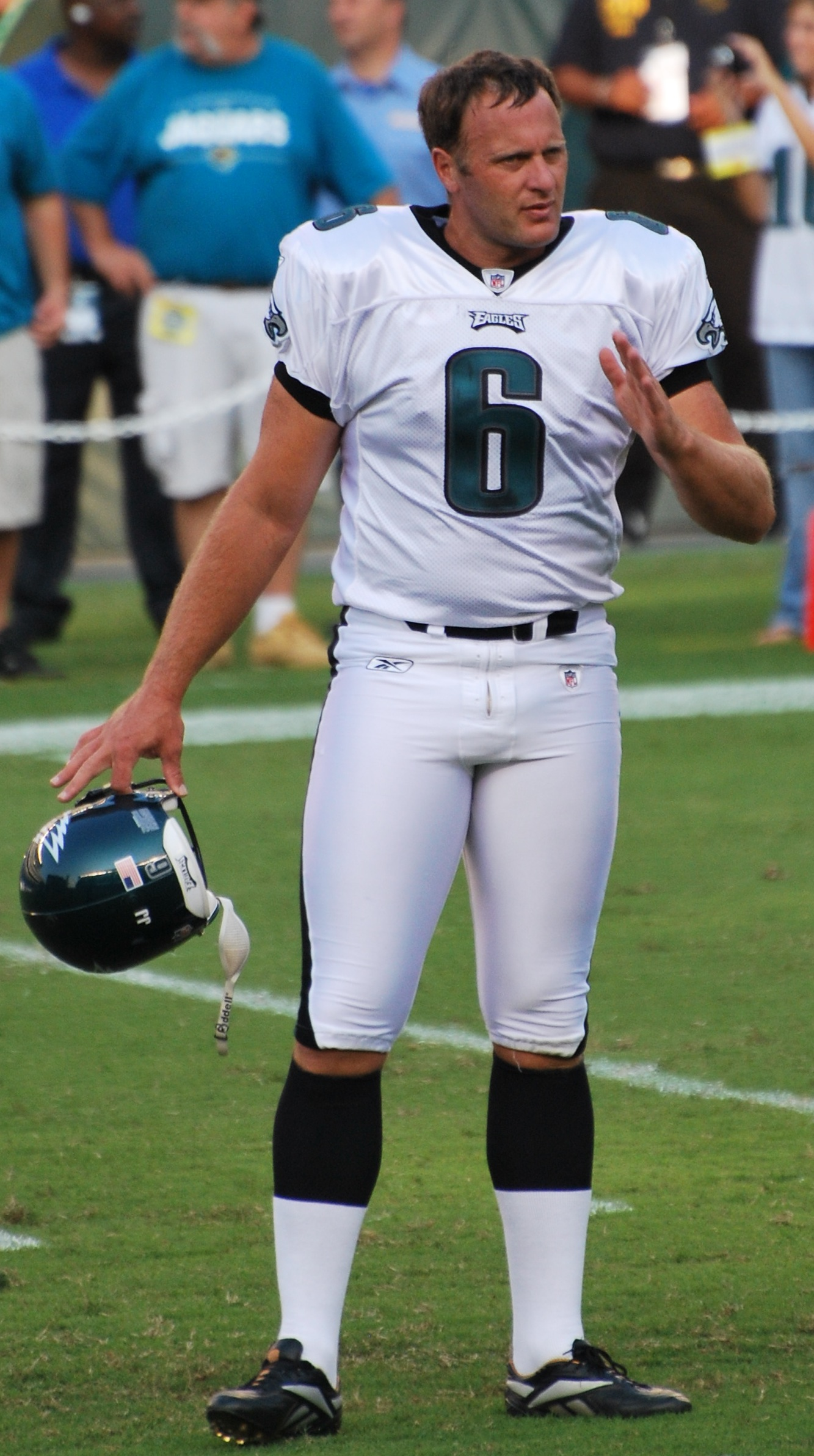 Philadelphia Eagles Punter Sav Rocca in a preseason game against the Jacksonville Jaguars in August 2009.